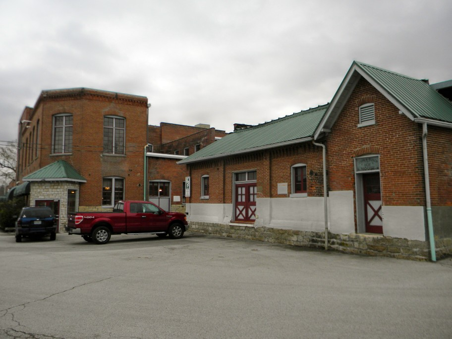 John B. Busch Brewery Historic District